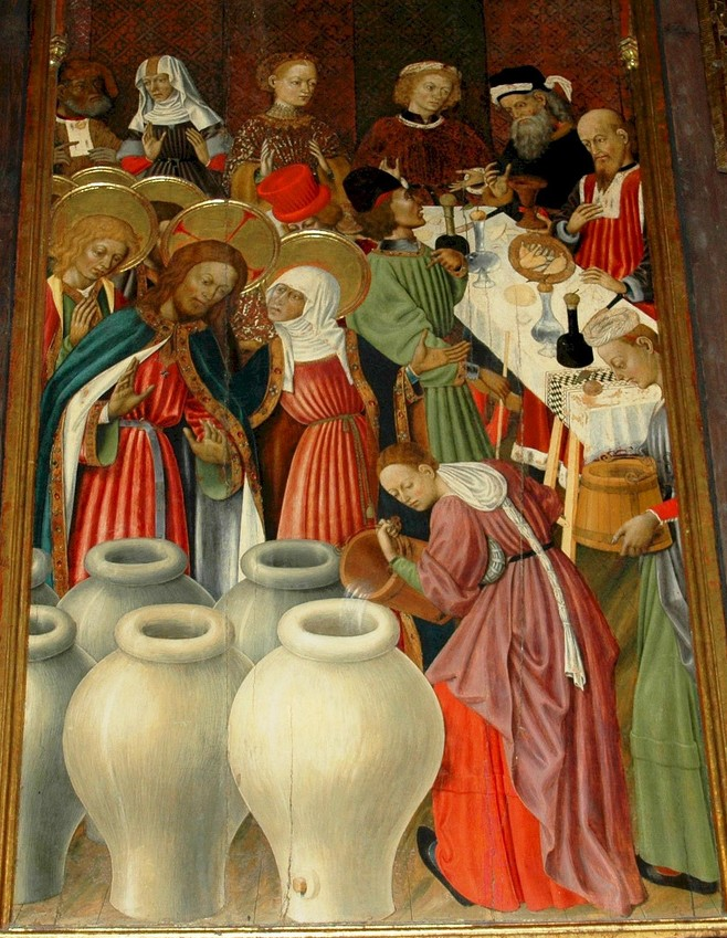 Marriage at Cana, in the Transfiguration altarpiece (Cathedral of Barcelona), by Bernat Martorell